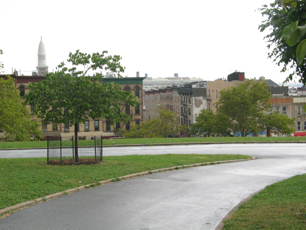 The tops of the 5th avenue buildings, and the dome of St Michaels (4th Avenue) on the left, as seen from the hills of the western slope of Sunset Park